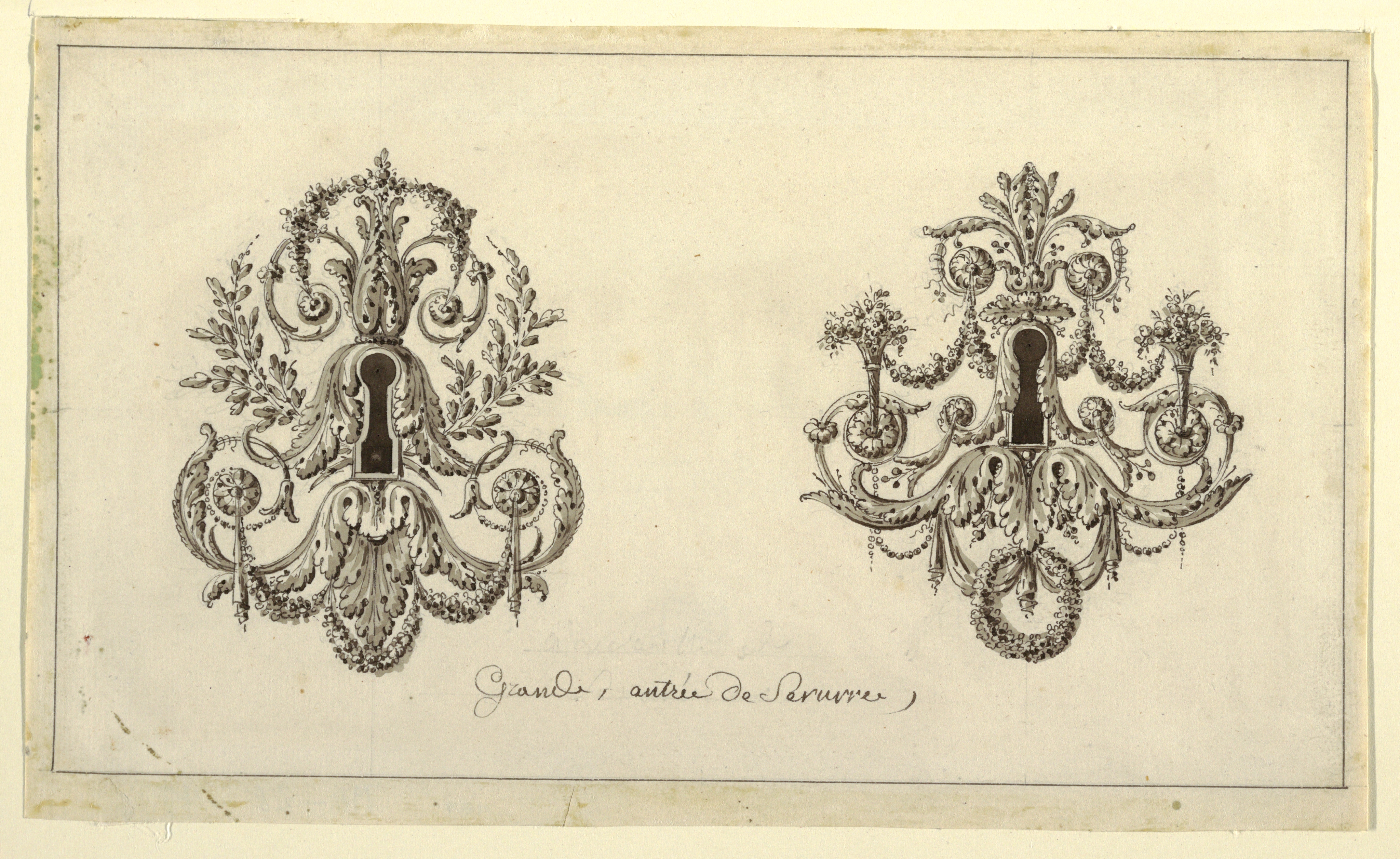 Both key-plates are formed by foliate arabesques; that on the left is decorated with garlands, and that on the right with a wreath suspended at the bottom.